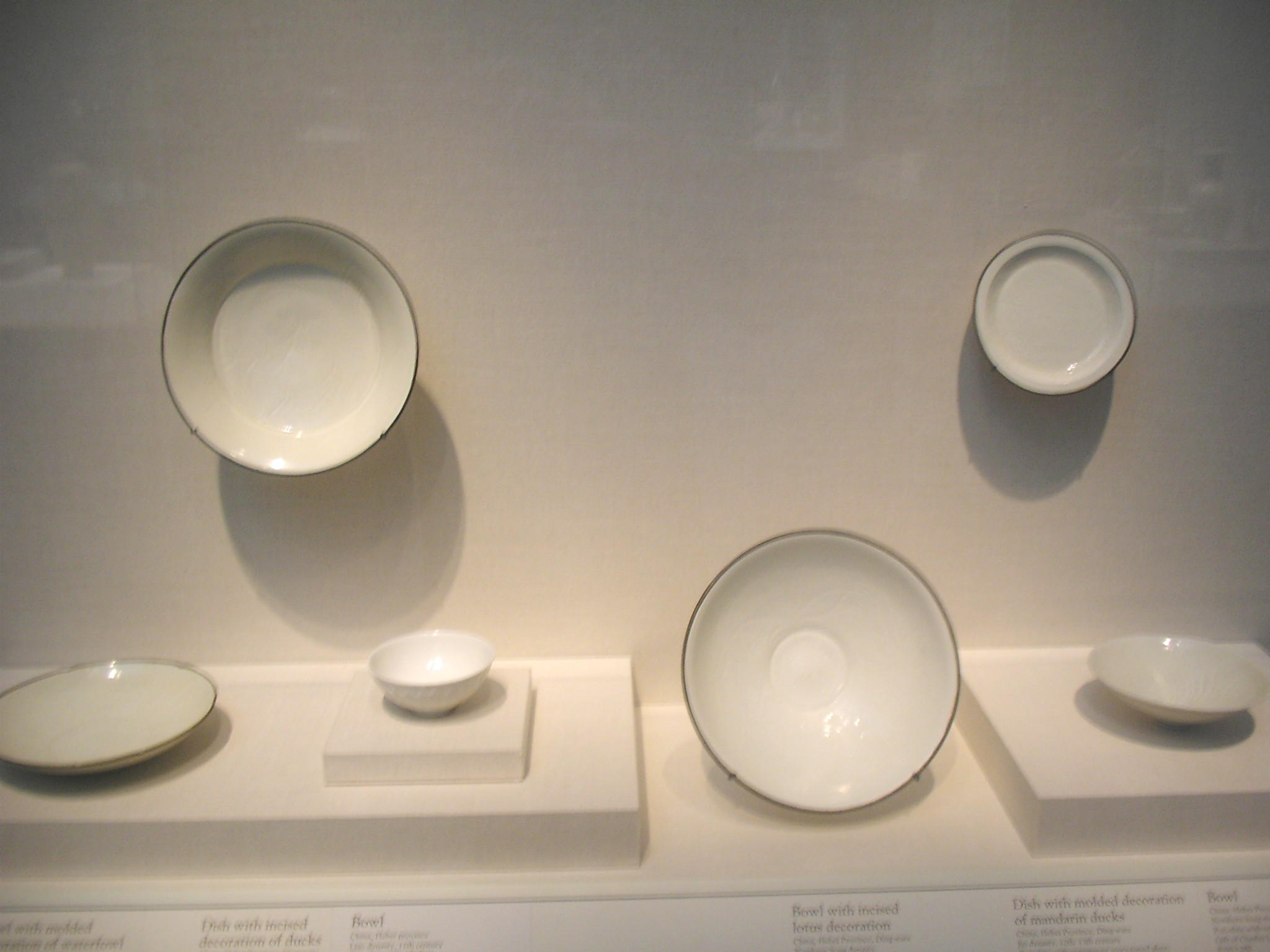 Porcelain bowls and dishes from the Chinese Song Dynasty (960-1279 AD) and Jin Dynasty (1115-1234 AD) eras of China. These bowls and dishes are of the Ding-ware type of Chinese porcelain, with a transparent ivory-toned glaze, all of them found in Hebei province. Some of the items feature metal rims as well. From the Freer and Sackler Galleries of Washington D.C. Author: User:PericlesofAthens Date: August 3, 2007